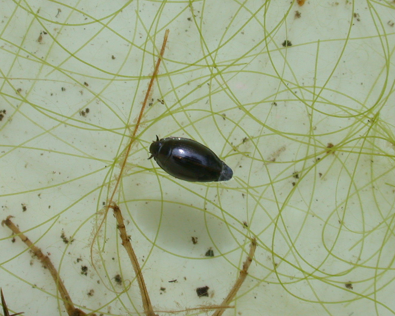 Gyrinus japonicus(Gyrinidae) Japanese name:mizusumasi Date;2008,03,16;Tanabe city, Wakayama prefecture, Japan Author;Keisotyo